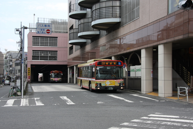 Keio-Hachioji Station Bus Terminal